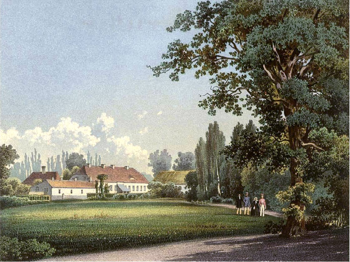 Manor in Kwasowo